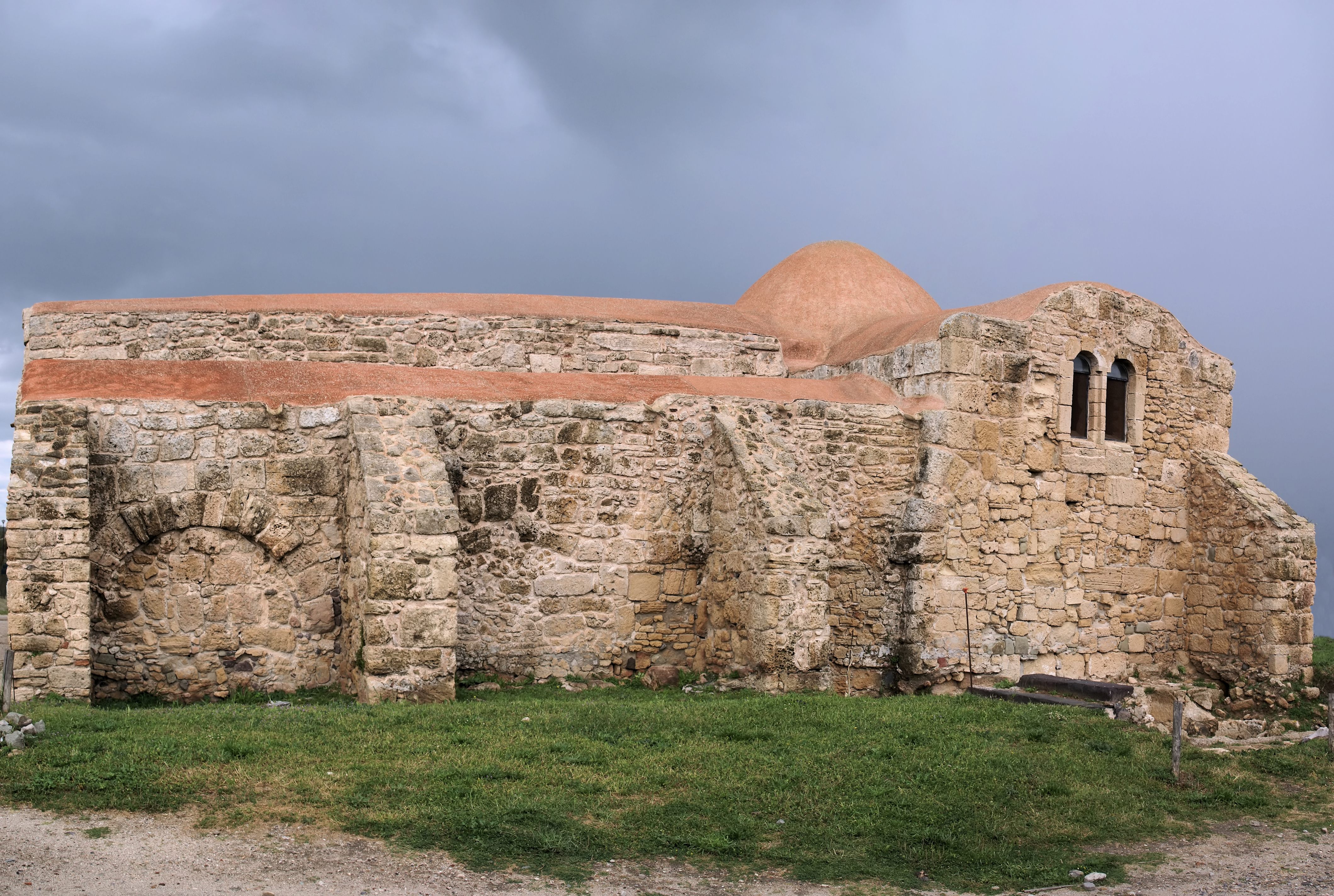 San Giovanni di Sinis in Oristano province, Sardinia, Italy